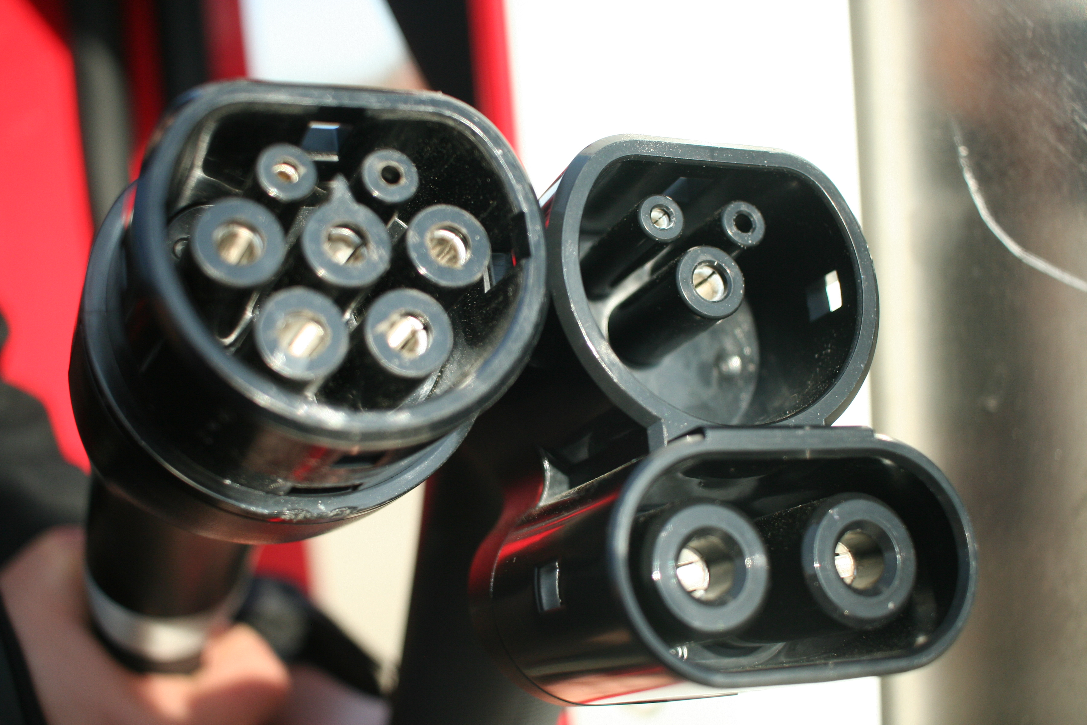 Dual cable Tesla Supercharger for electric vehicle charging at up to 120 kW. IEC Type 2 outlet with Model S/X-only notch (originally specified for unprotected "Mode 1" home charging). CSS Combo 2 for Model 3 and other vehicles.